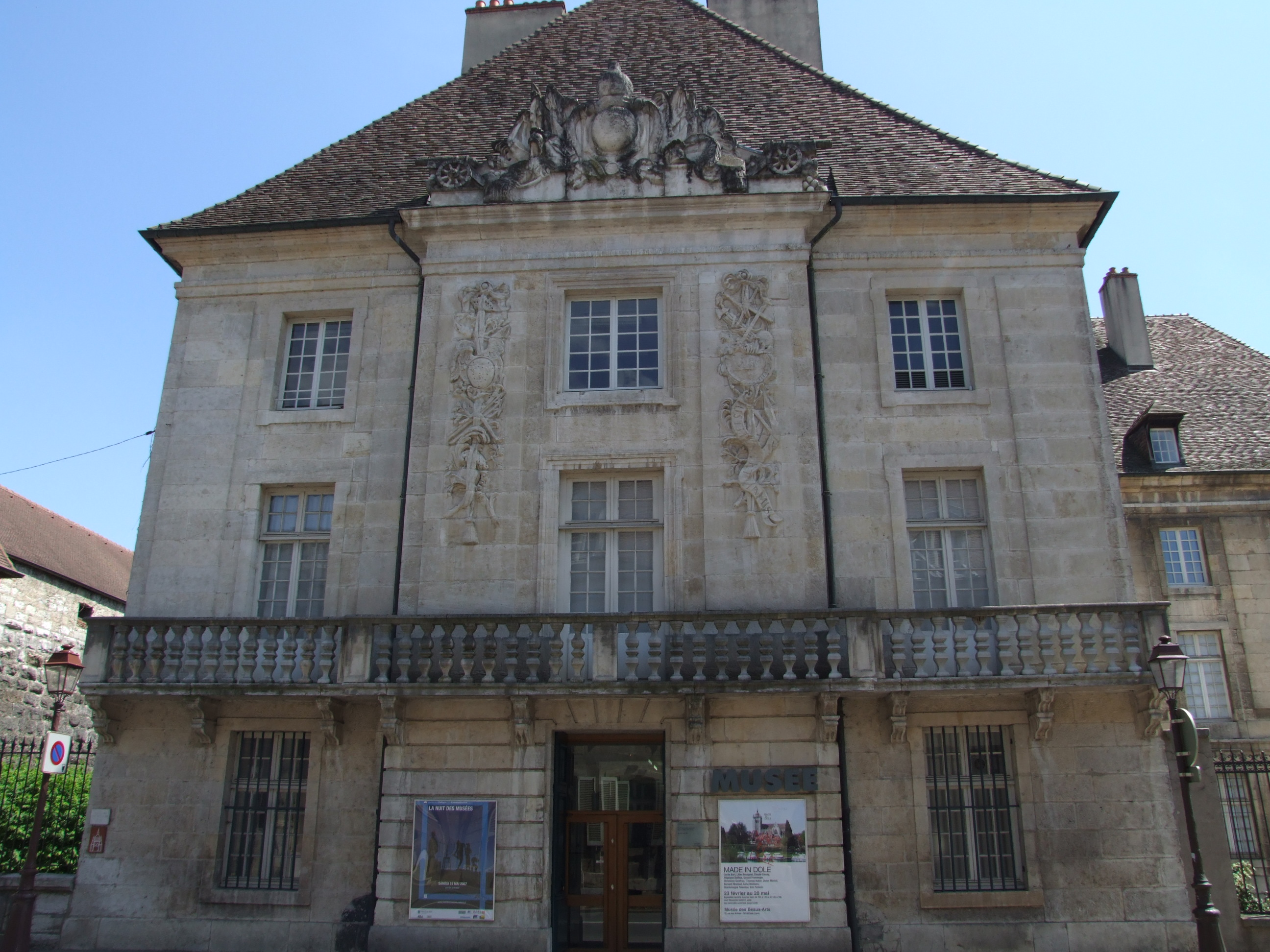 Museum, Dole, Jura, FRANCE